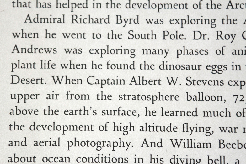 A sample of Emerson from Golden Press's Golden Encyclopedia, first published in 1946 by the Cambridge University Press.